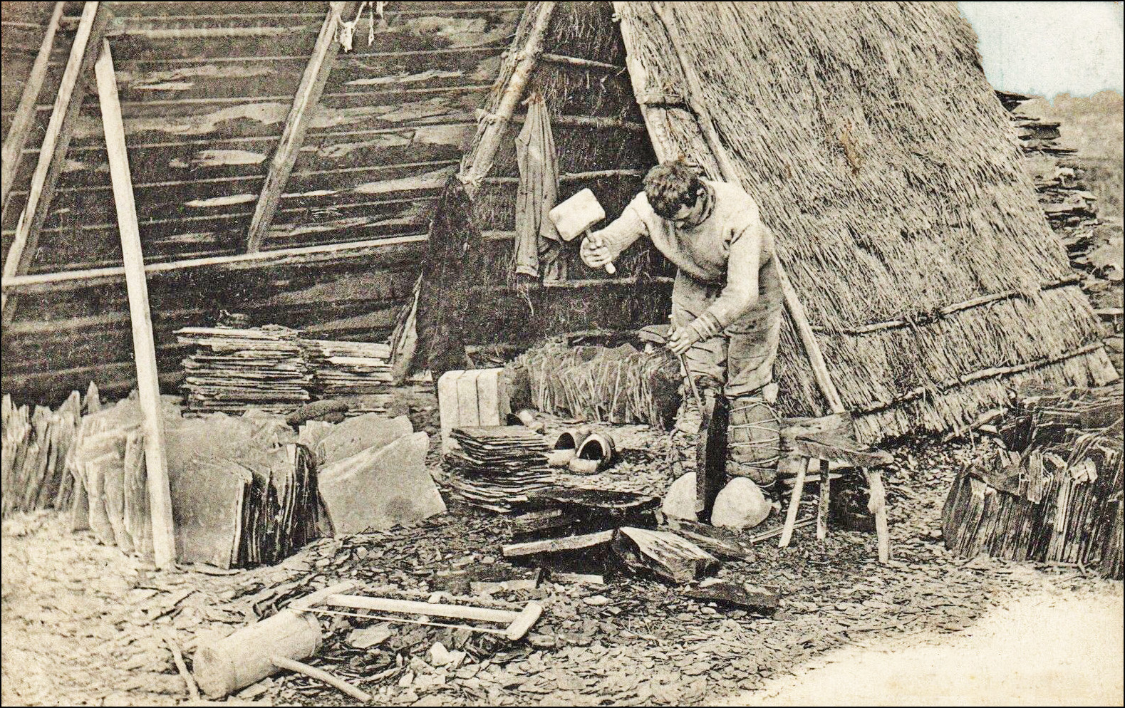 Traditional tile spliter.